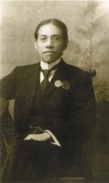 Portrait of Liang Qichao (Tung Wah News, 17 April 1901)